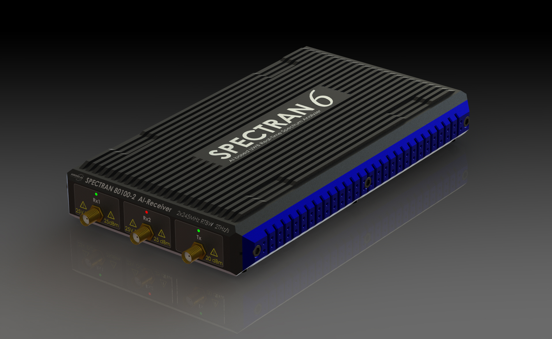 A modern real time spectrum analyzer below 1kg offering two Rx with 245MHz RTBW each and 450MHz IQ Tx.